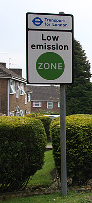 London low emission zone sign